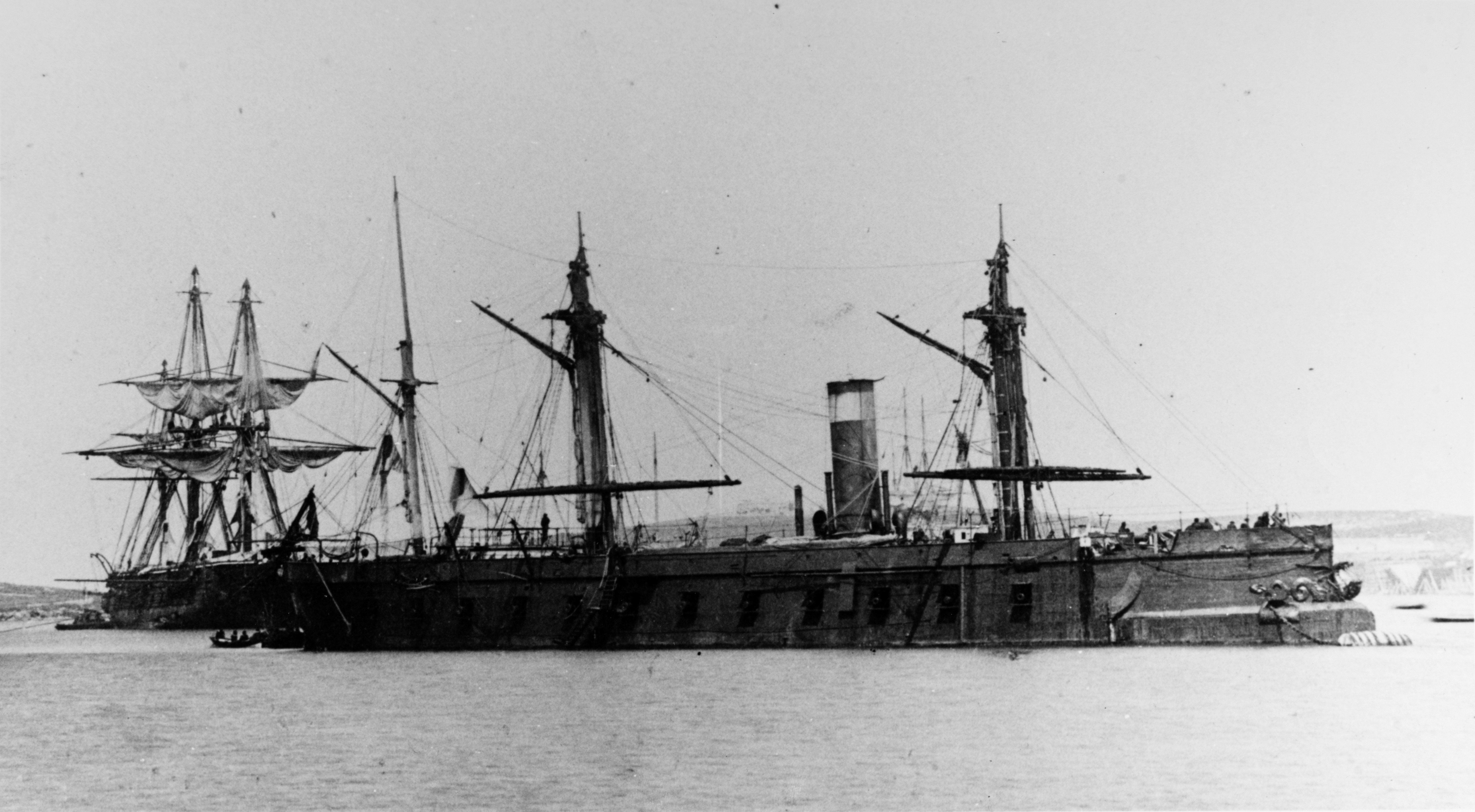 The SMS Drache at Pola circa 1866, showing original appearance. Picture cropped and rotated slightly by uploader.